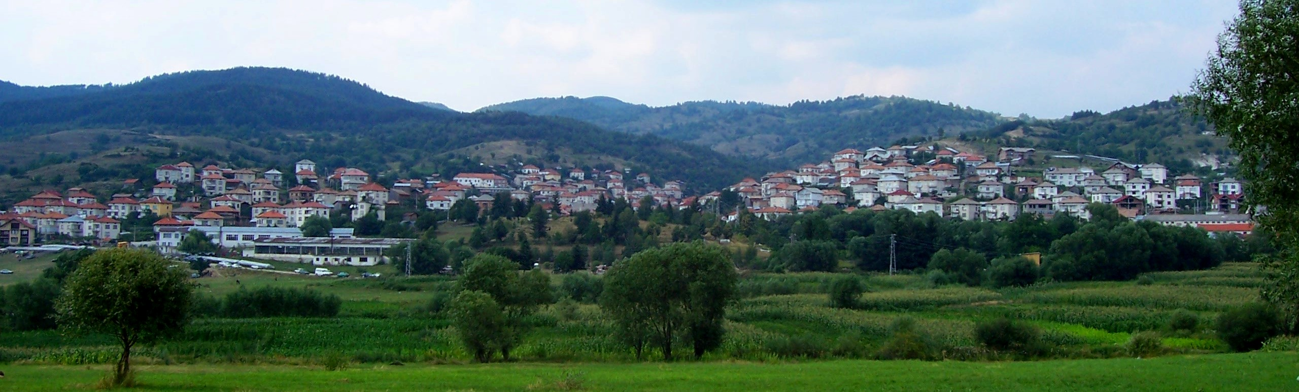 A view towards the village of Vaklinovo.